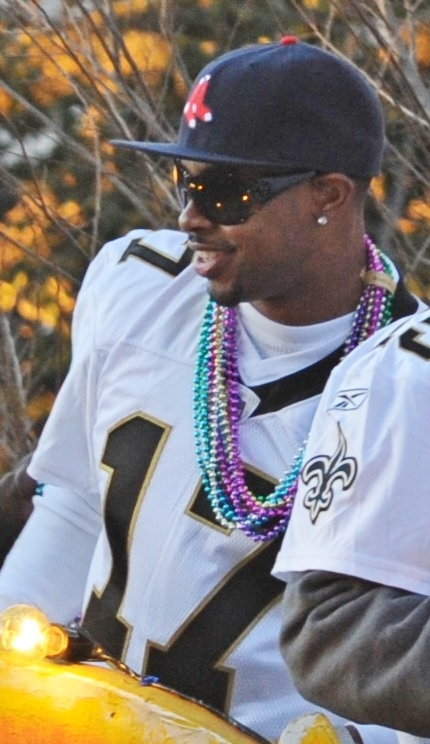 February 9, 2010